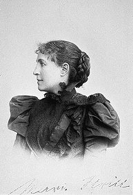 Portrait of Marie Stritt, German feminist (1855-1928)